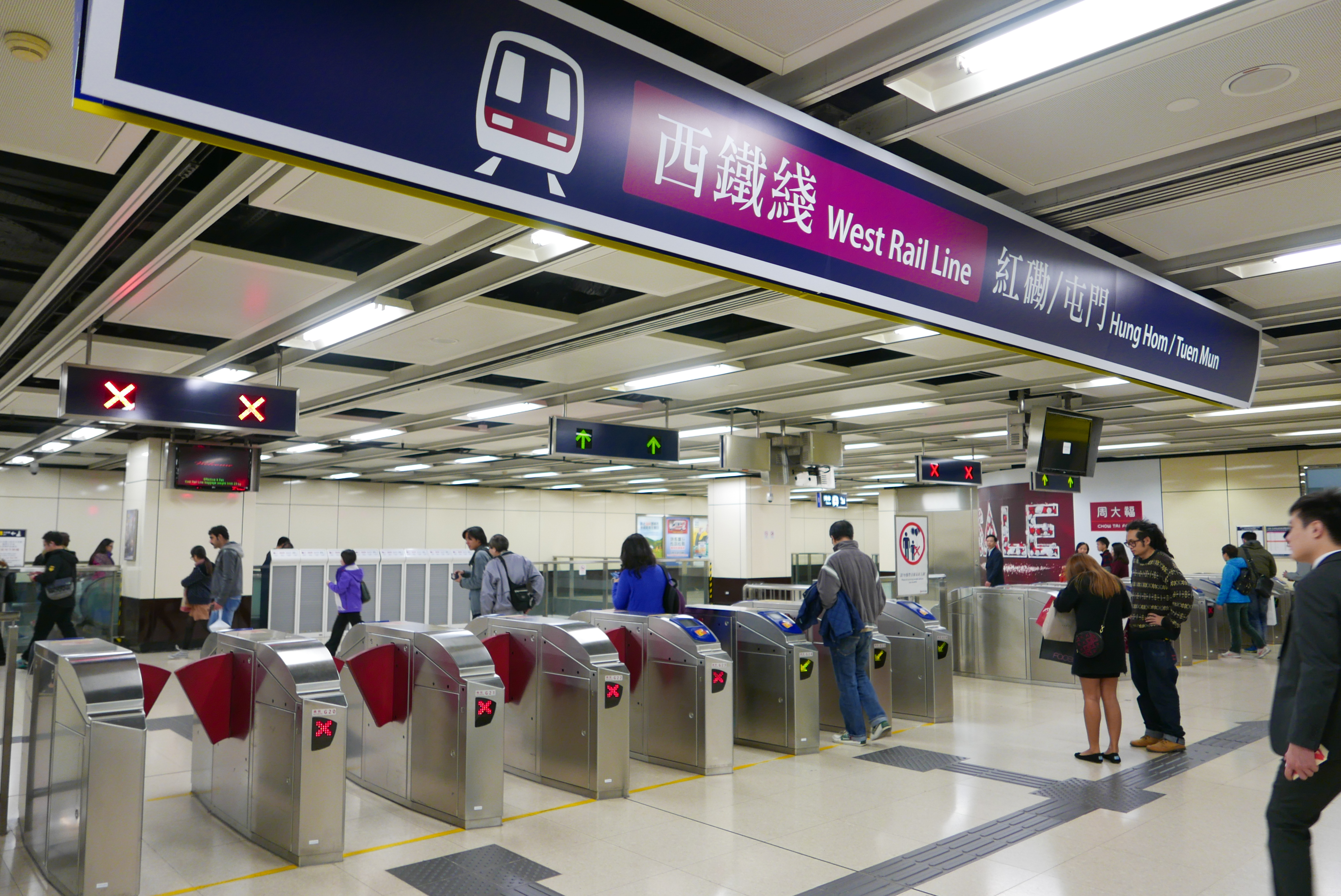 MTR East Tsim Sha Tsui station ticket gates